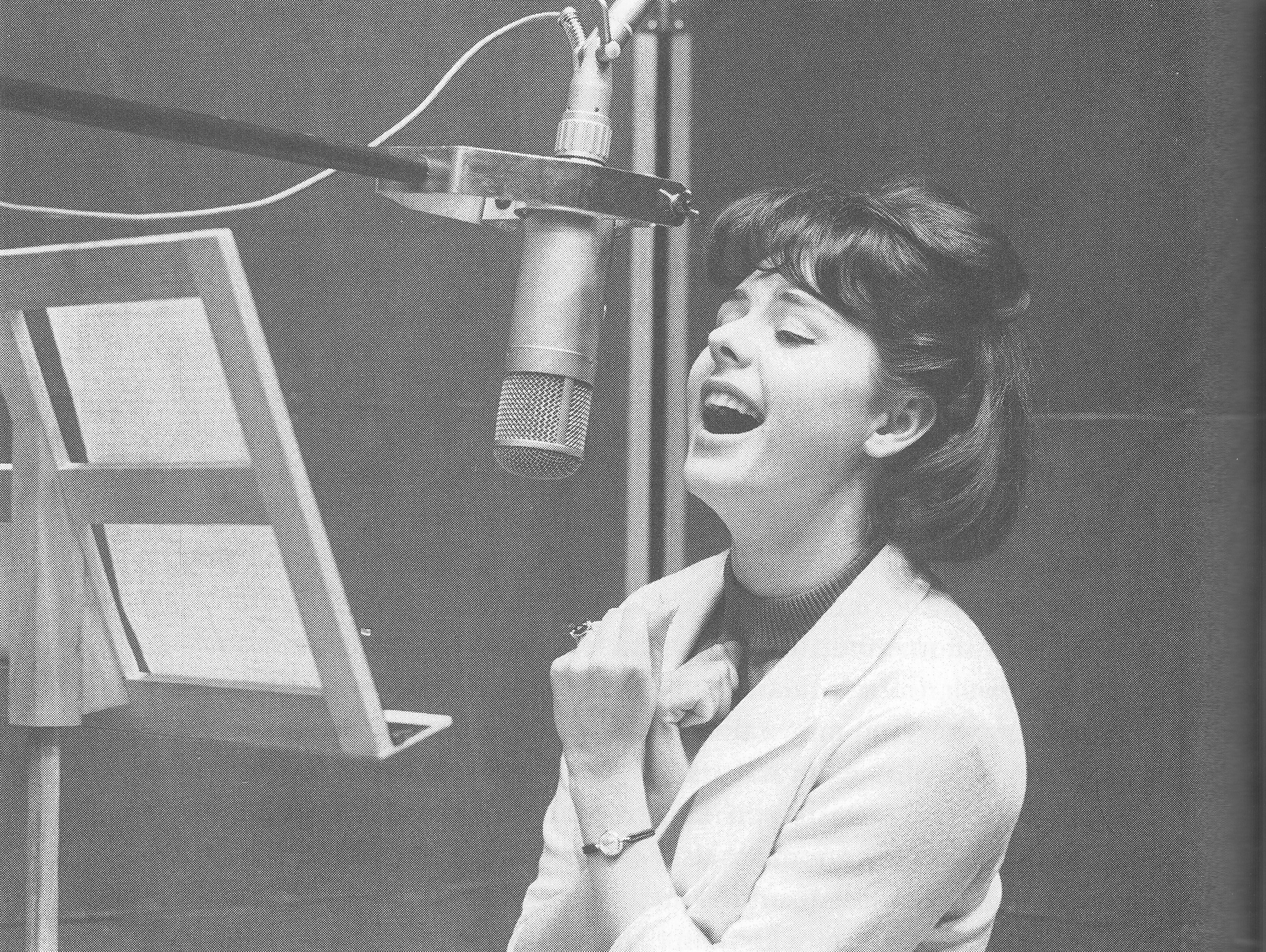 Pirkko Mannola